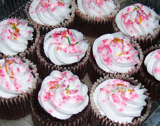 Choco moist cupcakes by marvelcakes